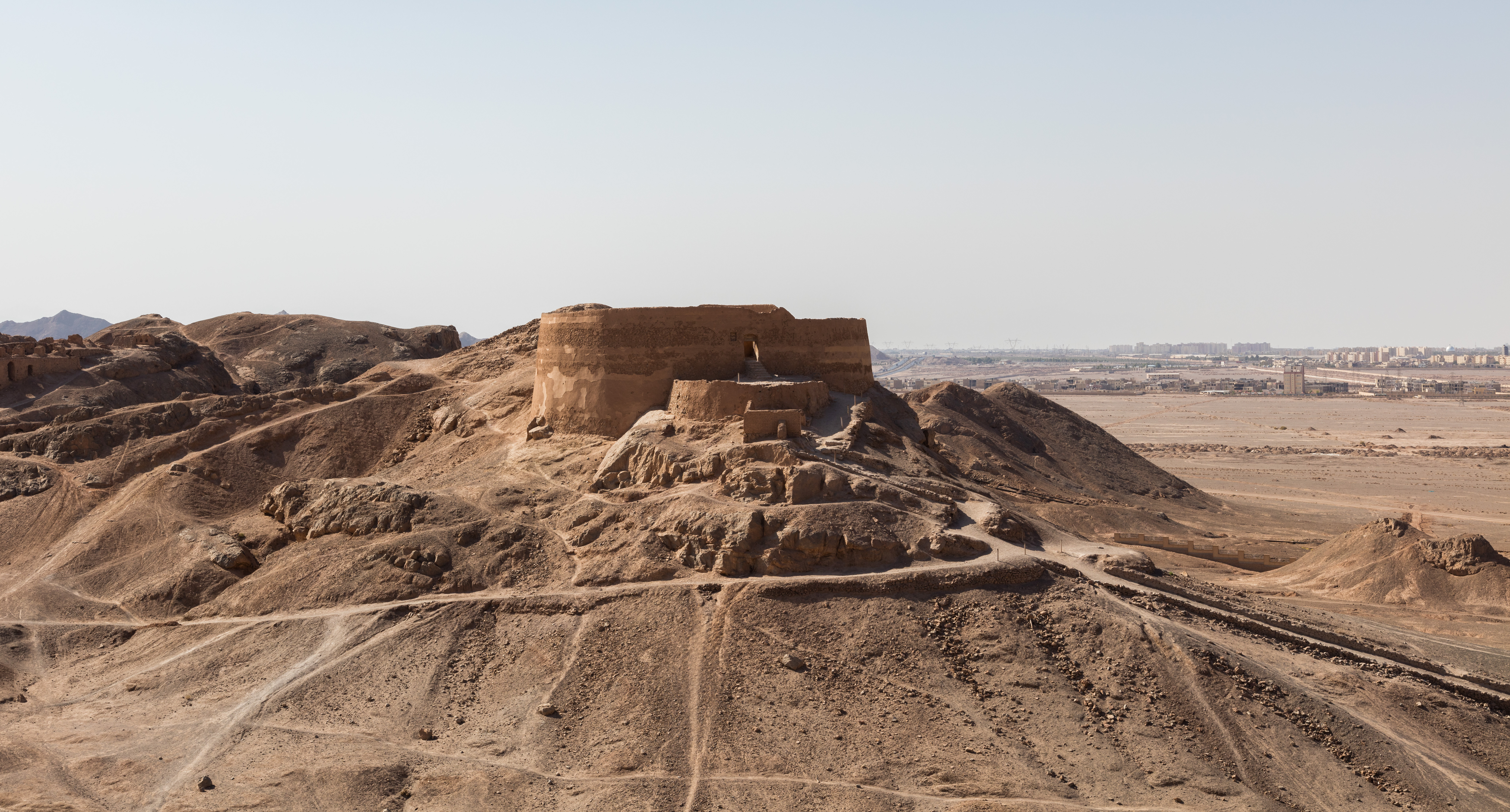 Tower of Silence, Yazd, Iran